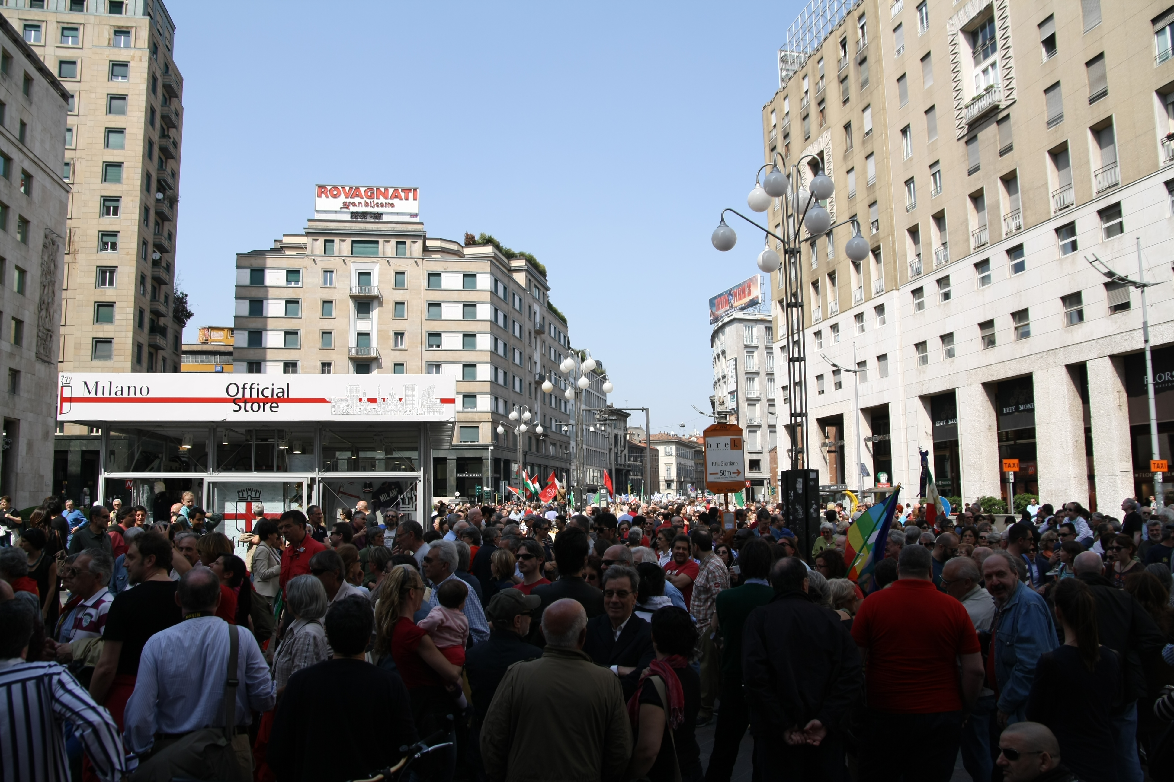 Liberation Day 2013 in Milan, april 25, 2013.